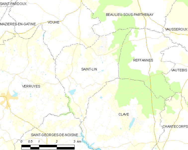 Map of French municipality Saint-Lin